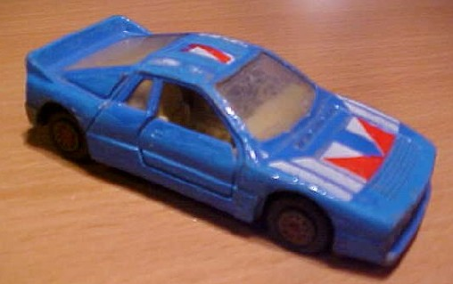 Modelcar EDOCAR Lancia 037